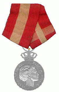 Den Kongelige Belønningsmedalje i Sølv med Krone Royal Medal Danmark